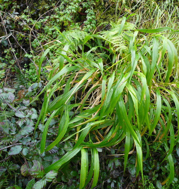 Brachypodium sylvaticum. In Collserola, Catalonia (see Collserola. I made the photograph on february 3rd 2007.